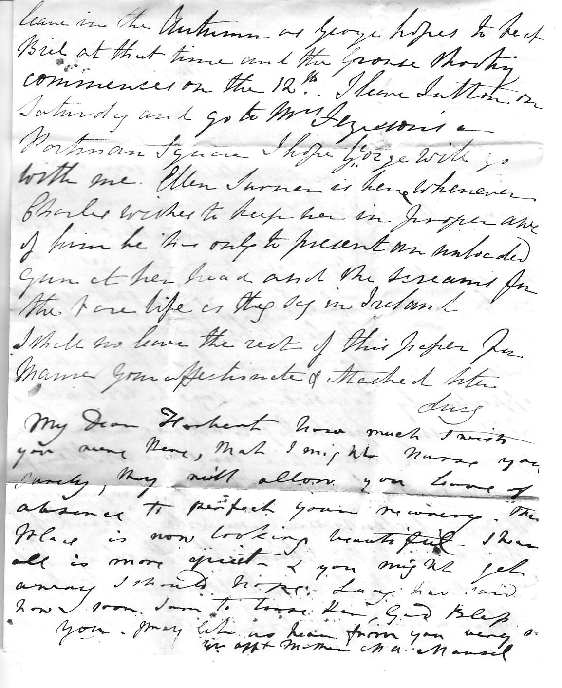 Undated letter (circa 1830s) from Lucy and Mary Ann Mansel to Herbert Mansel